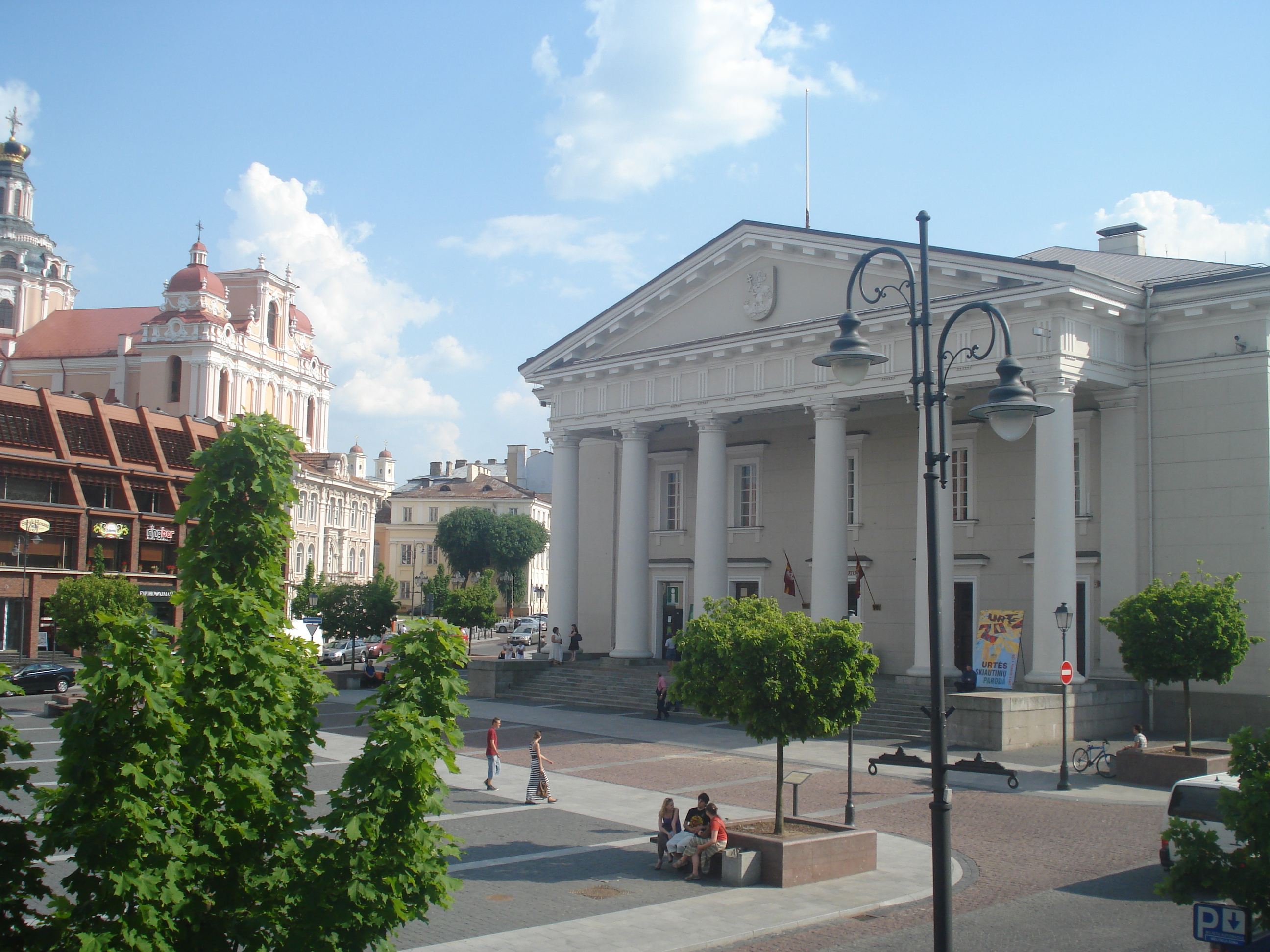 Town hall square in Vilnius